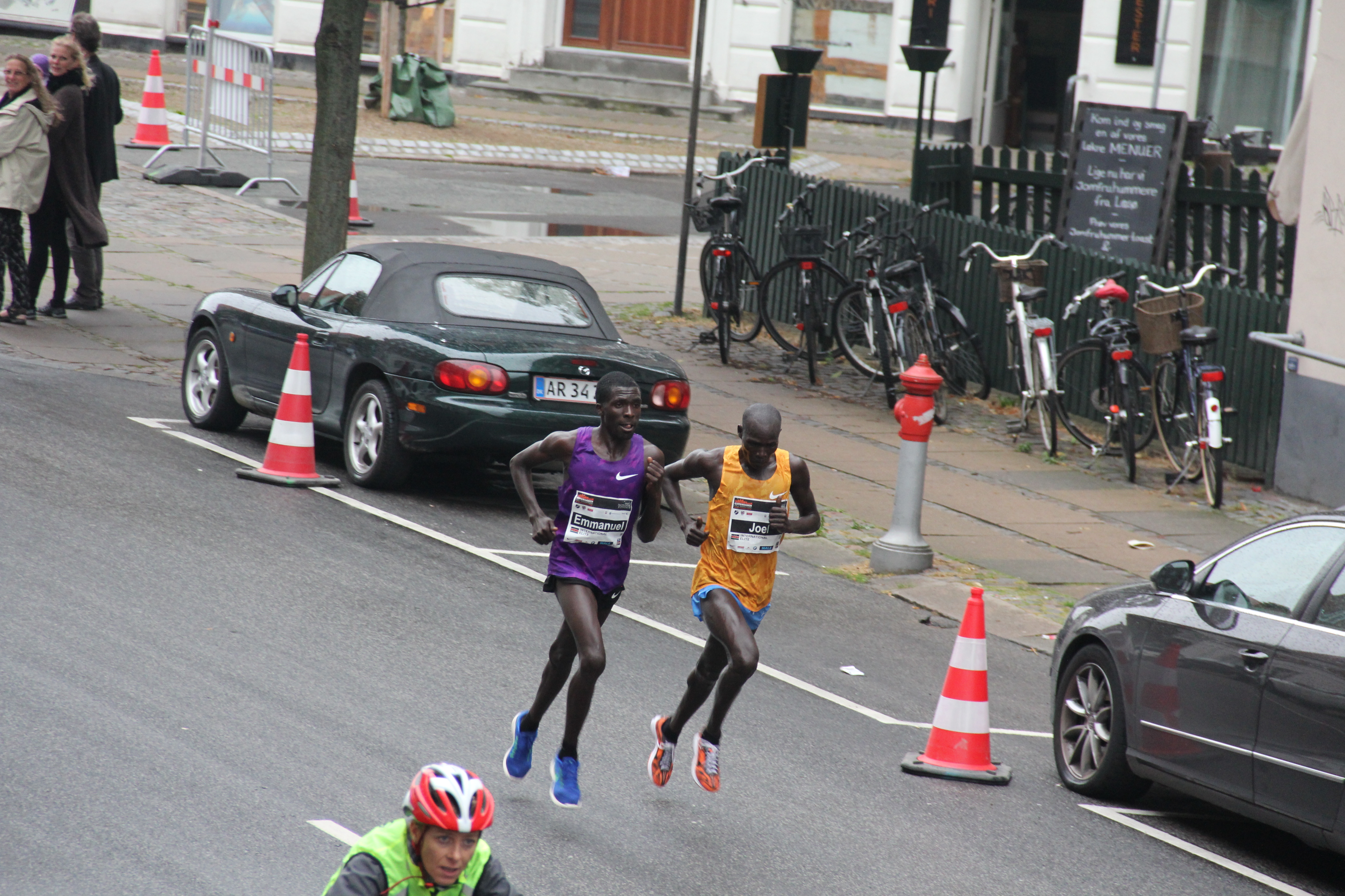 Half marathon Sep 13 2015 at 19.5 km Emmanuel Kipkemei Bett and Joel Kemboi Kimurer